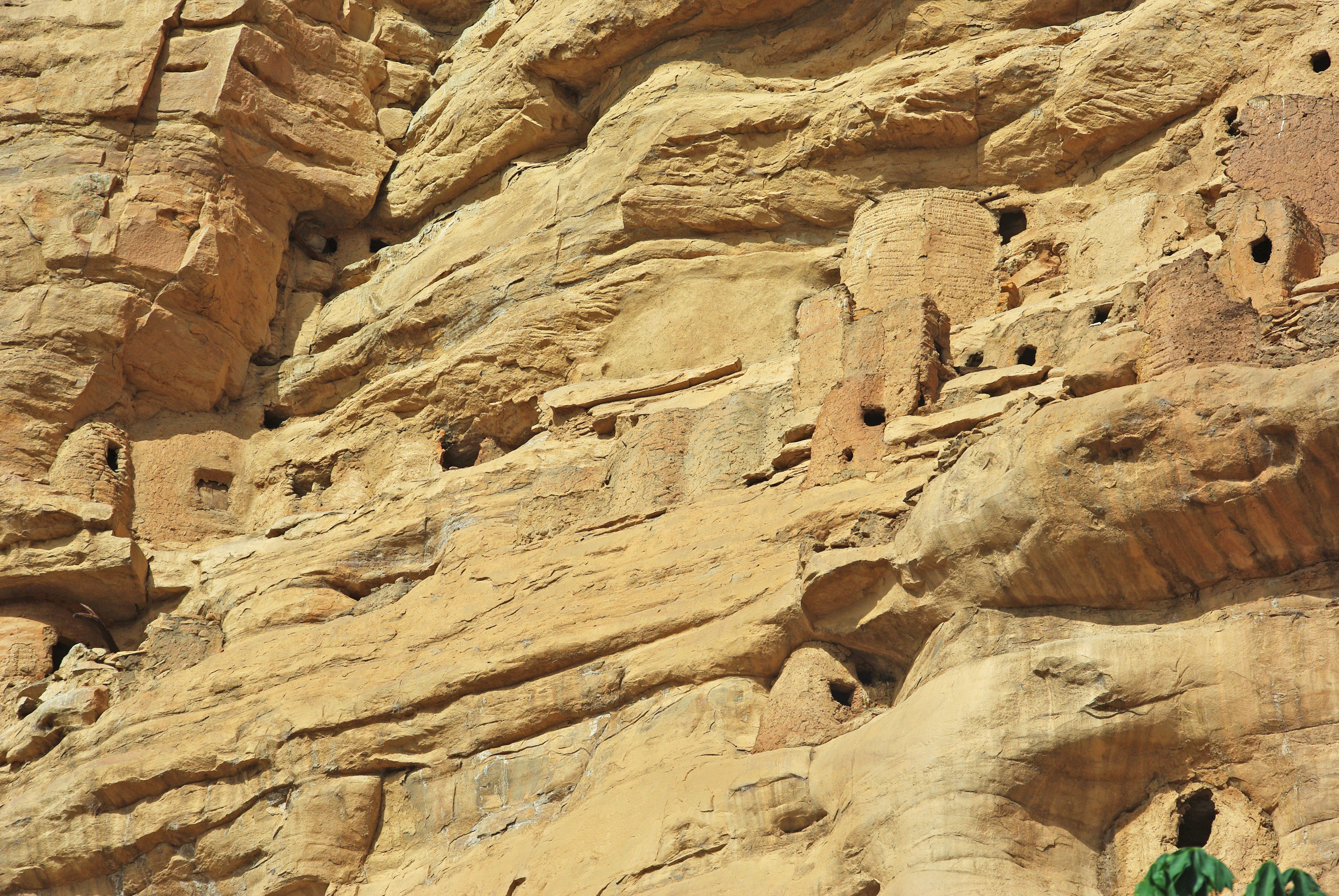 Toloy cliff dwelling housing (now abandoned) in the Bandiagara escarpment, Mali.